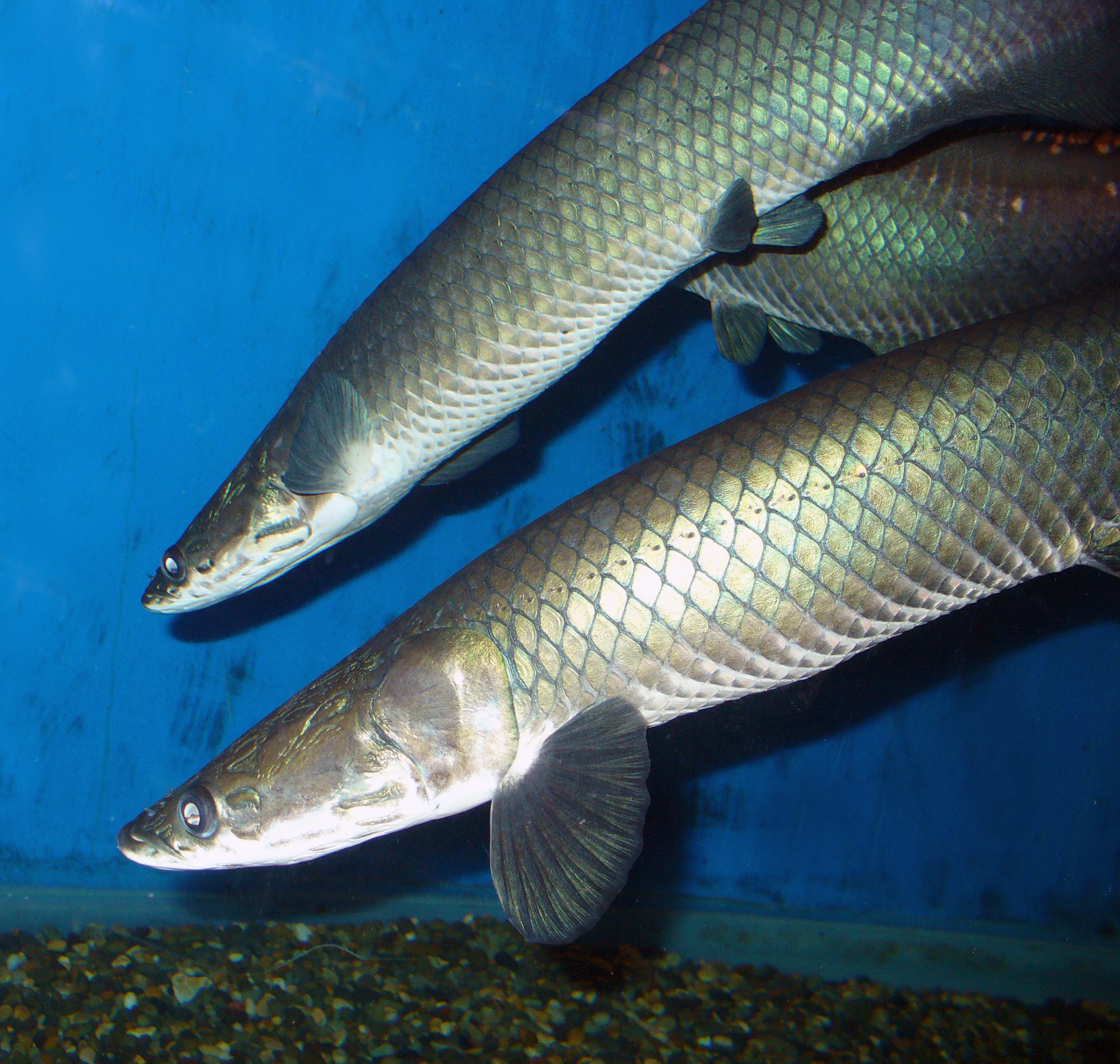 An arapaima, pirarucu, or paiche (Arapaima leptosoma), a South American tropical freshwater fish. Photo in Sevastopol, zoo aquarium.